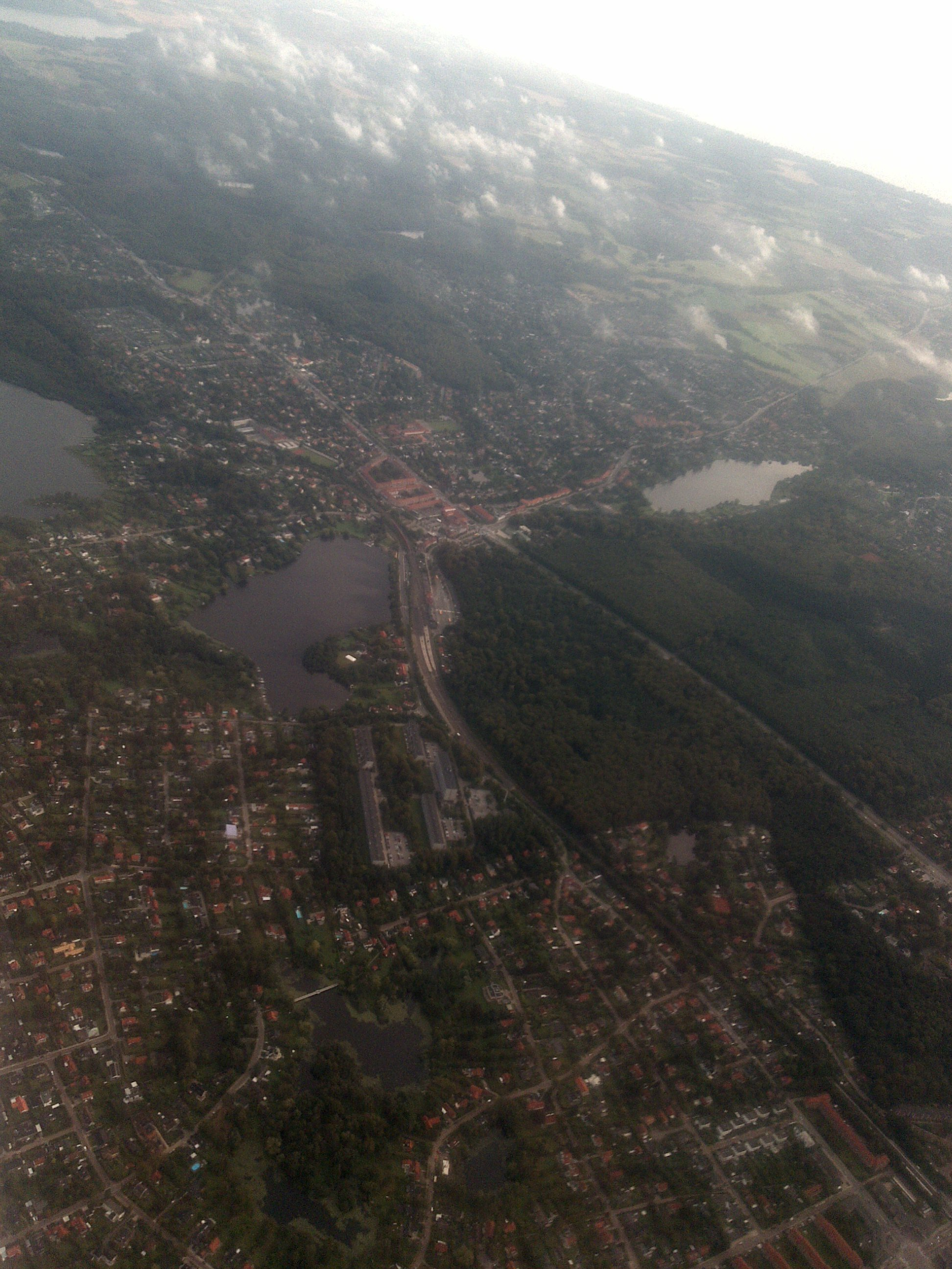 Town of Holte in Rudersdal municipality, Själland, Denmark, 20 km northwest of Copenhagen.